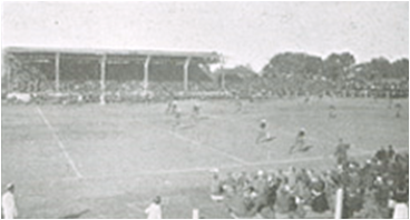 Low-resolution image of Nebraska Field as it appeared in 1921